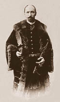 Pál Vágó (1853-1928) Hungarian painter